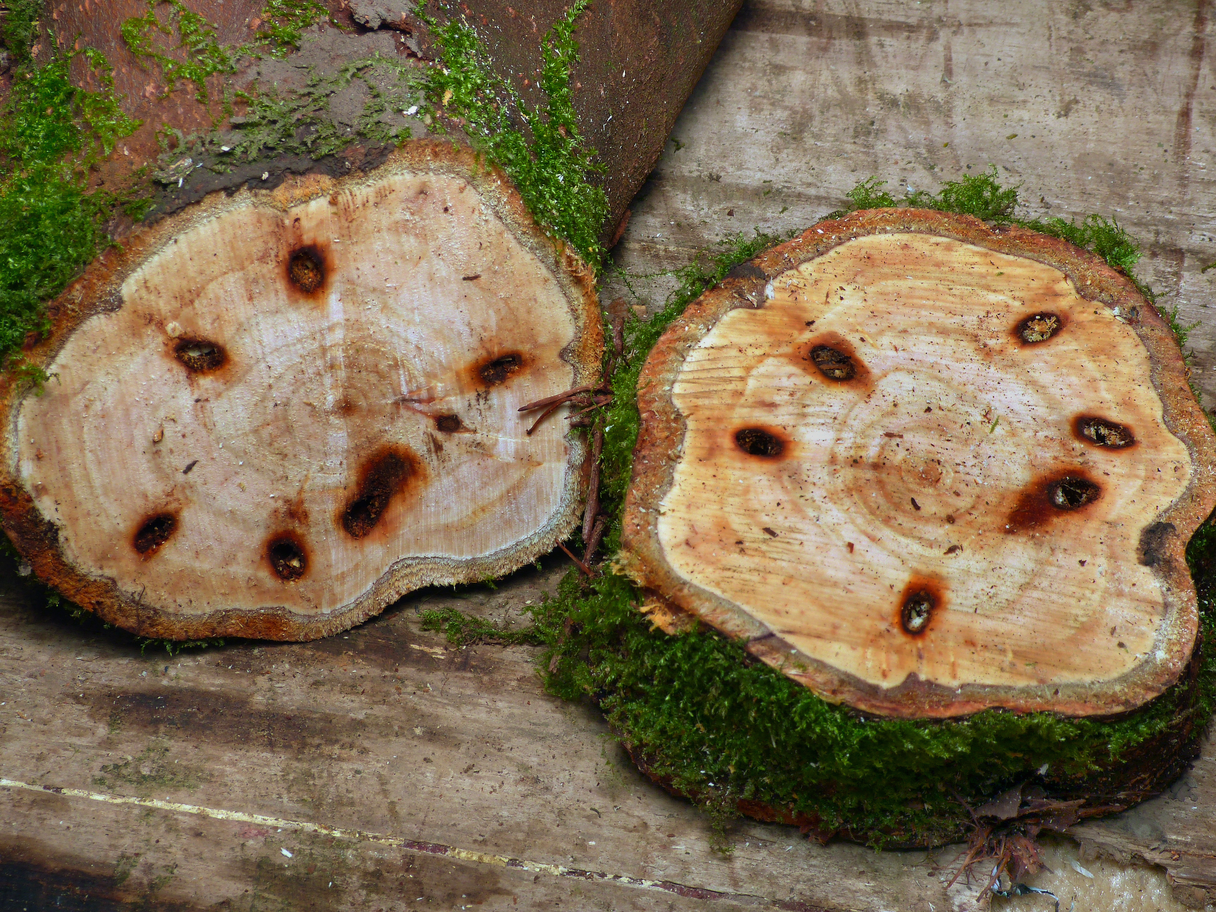 Uffmoor Wood, Worcestershire. For the second time this year (at two different sites) I have cut down a small sallow (150mm diameter), while carrying out conservation work, to reveal the larval burrows of the Lunar Hornet moth. The first sallow definitely had larvae present and my County Recorder is trying to rear adults. I'm not sure whether I have any larvae in these sections but I will keep them on damp sand in a container hoping to rear if present. All records on the Worcestershire database are from instances like this or are exit holes on sallows, the only adults seen have been reared from larvae.